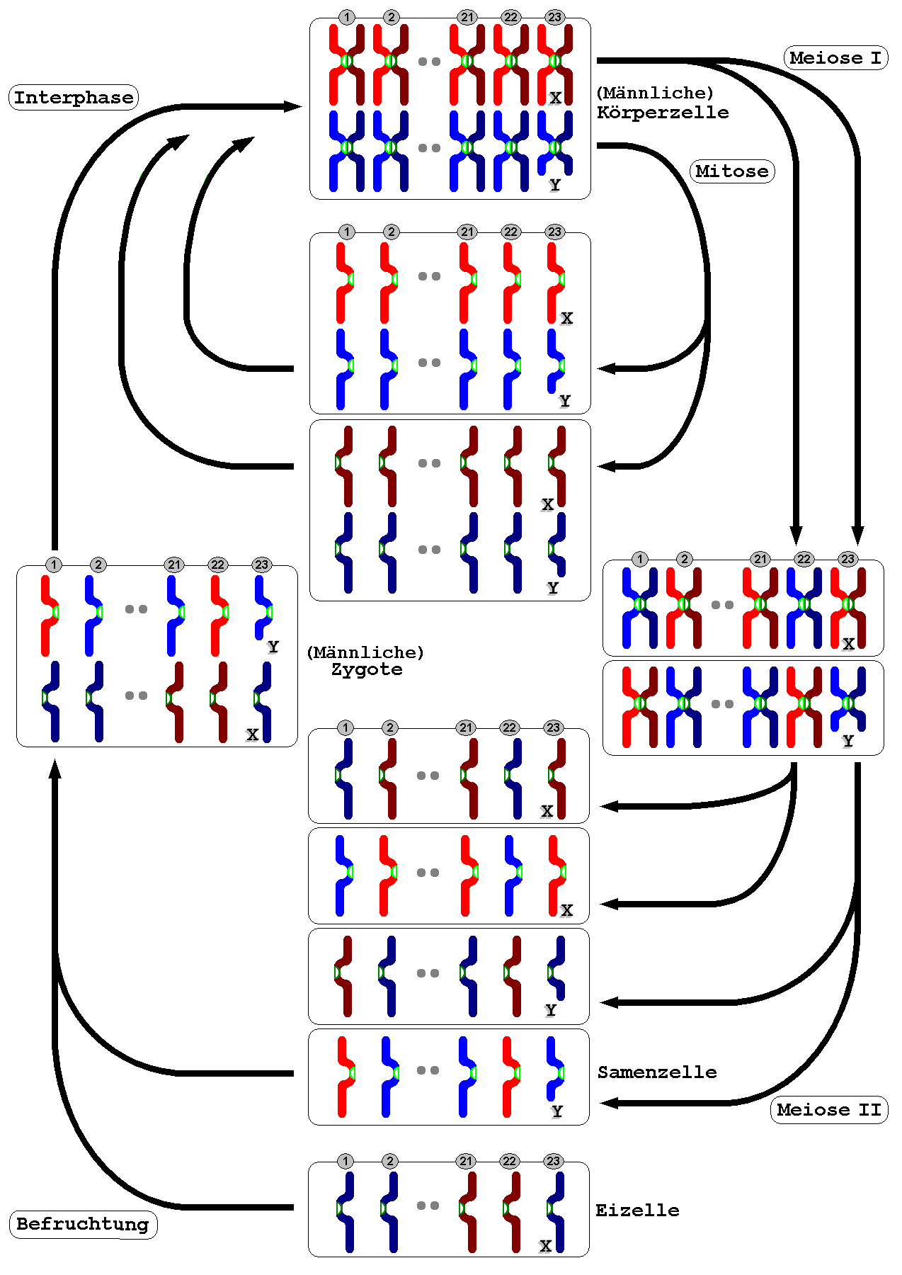 Overview of the distribution of chromatides and chromosomes within the mitotic and meiotic cycle of a male human cell